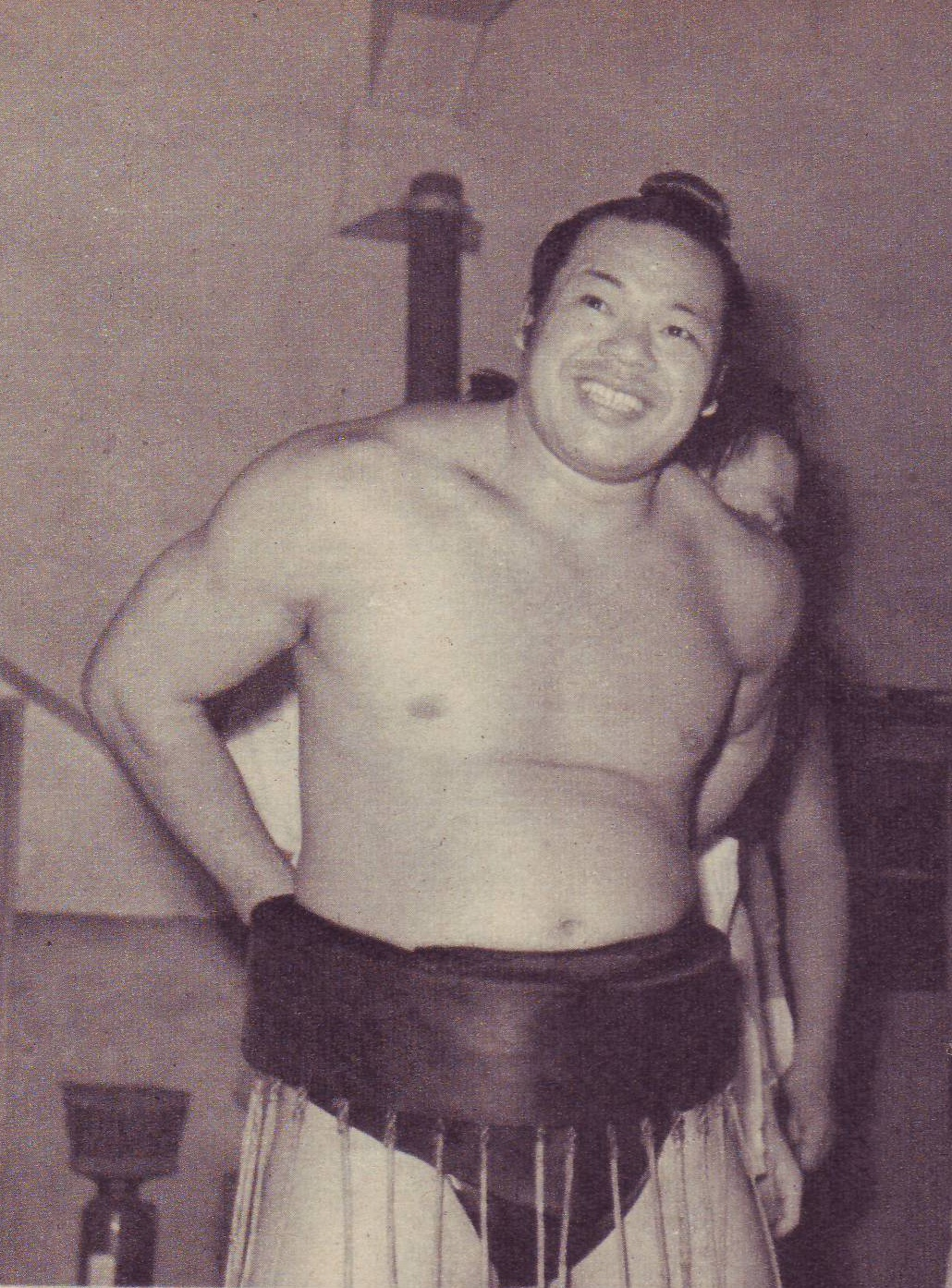 Annenyama Osamu (Haguroyama Sojō). taken in 1961.